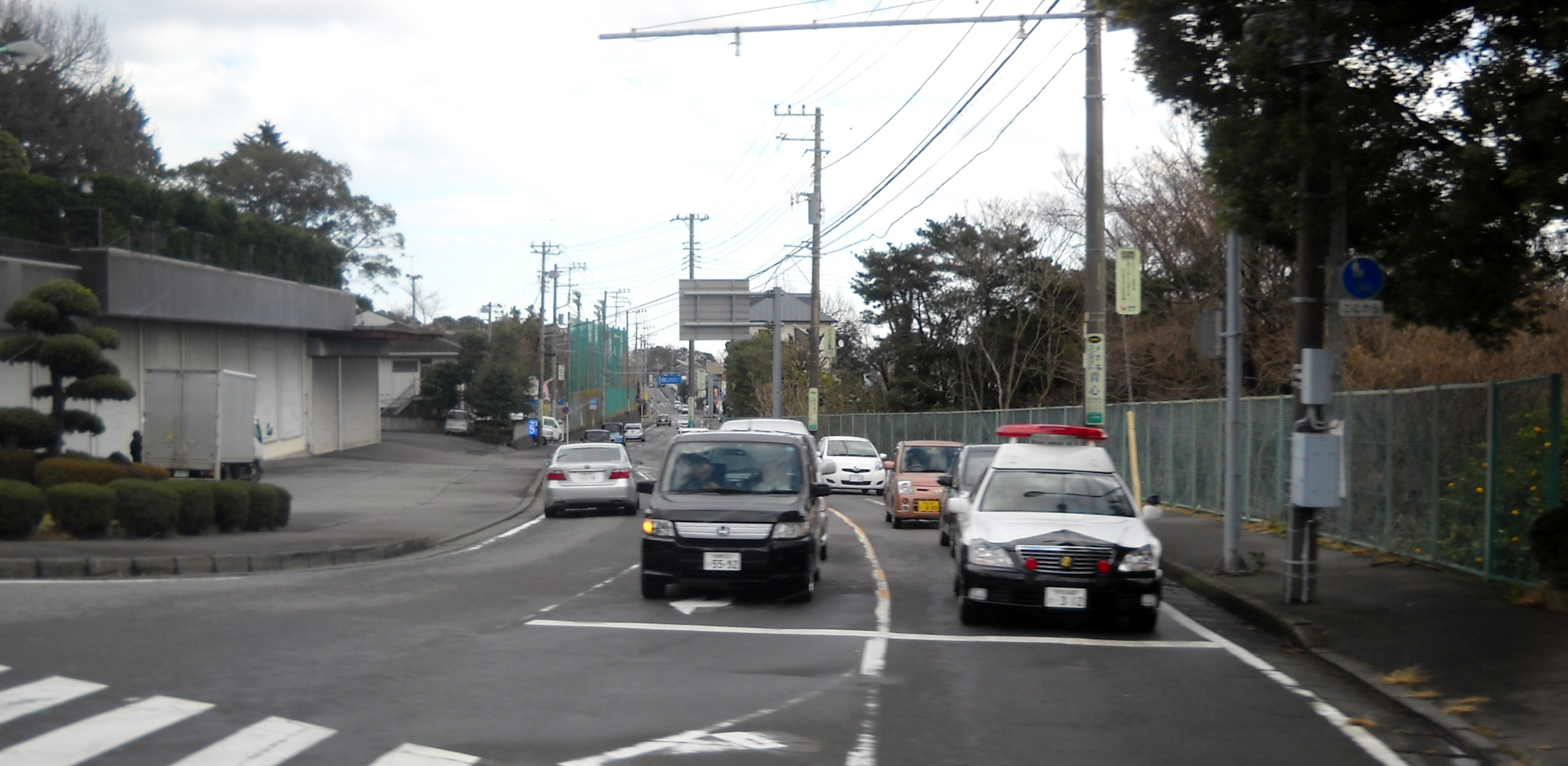 Shizuoka prefectural road route 109, Izu city, Shizuoka pref., Japan